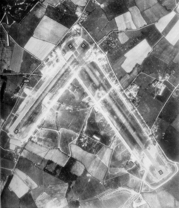 Aerial photograph of Ashford ALG Airfield, England.